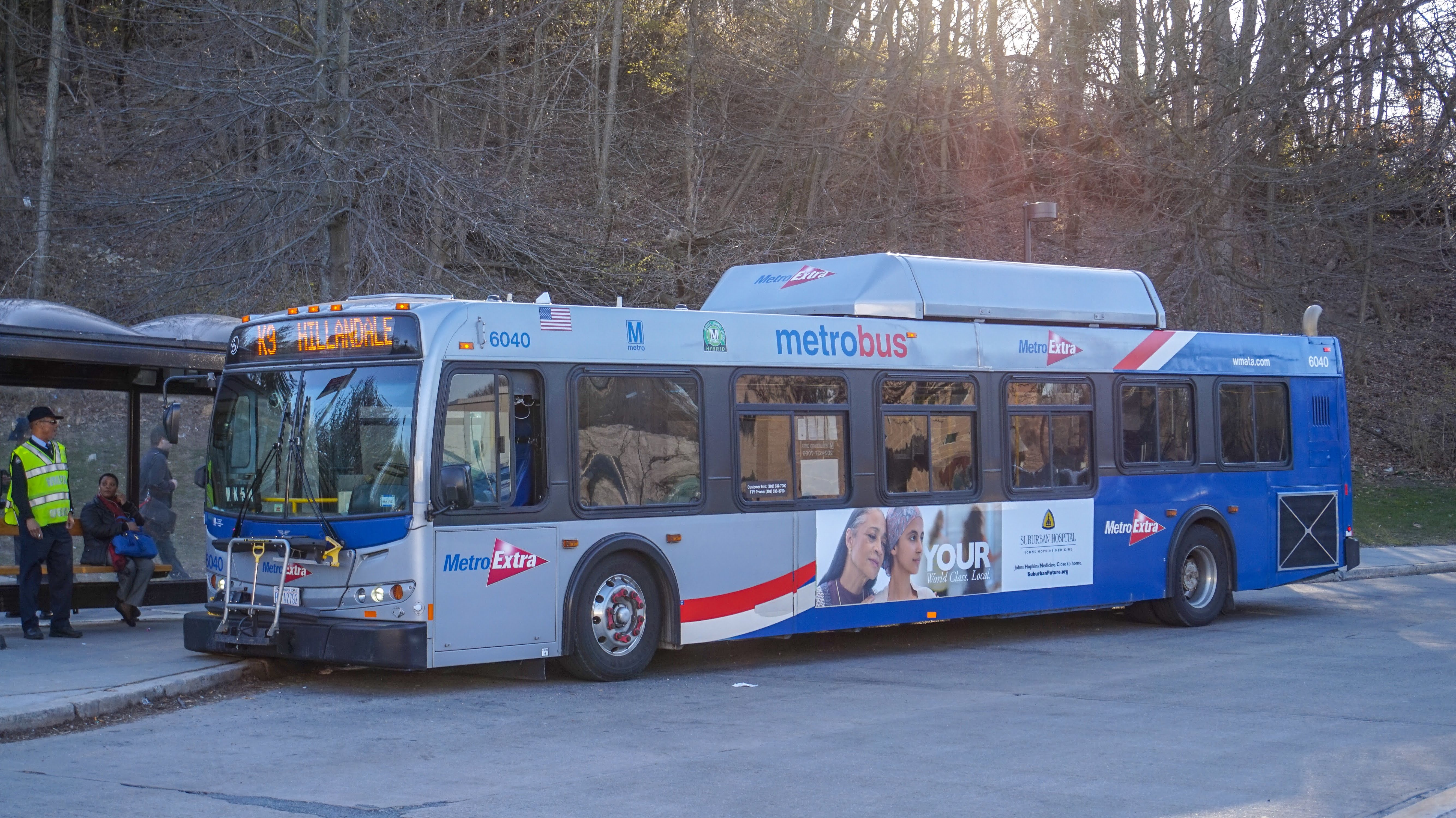 Here is WMATA only 2006 New Flyer D40LFR in the MetroExtra Scheme